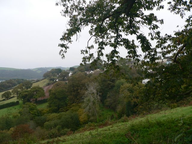 View to the north of Townstal At this point in our walk we are leaving the village of Townstal. From here the narrow country lane descends steeply downhill to Old Mill. To our right (NE) we look over rolling hillside towards the Dart estuary. The outlying houses of the village are visible among the trees.